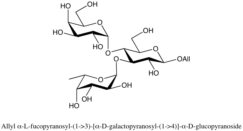 Branched Oligosaccharide Systematic Name